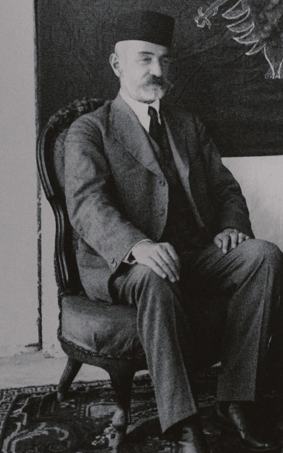 Aqif Pashë Elbasani